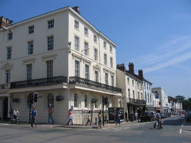 Regent Street, Royal Leamington Spa. Looking East along Regent Street from the Parade, with the Old Bank on the corner.